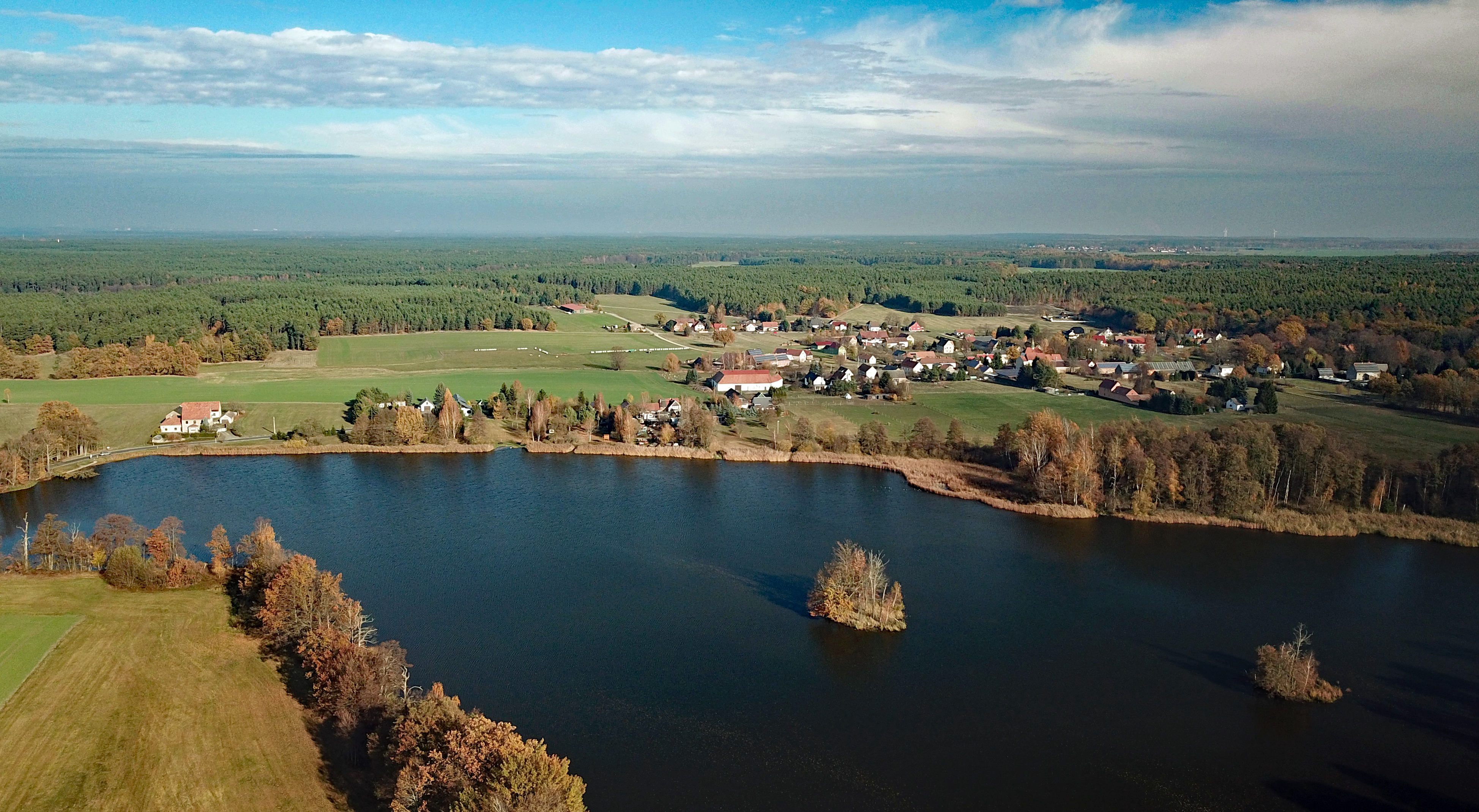 Cosel (Schwepnitz, Saxony, Germany)